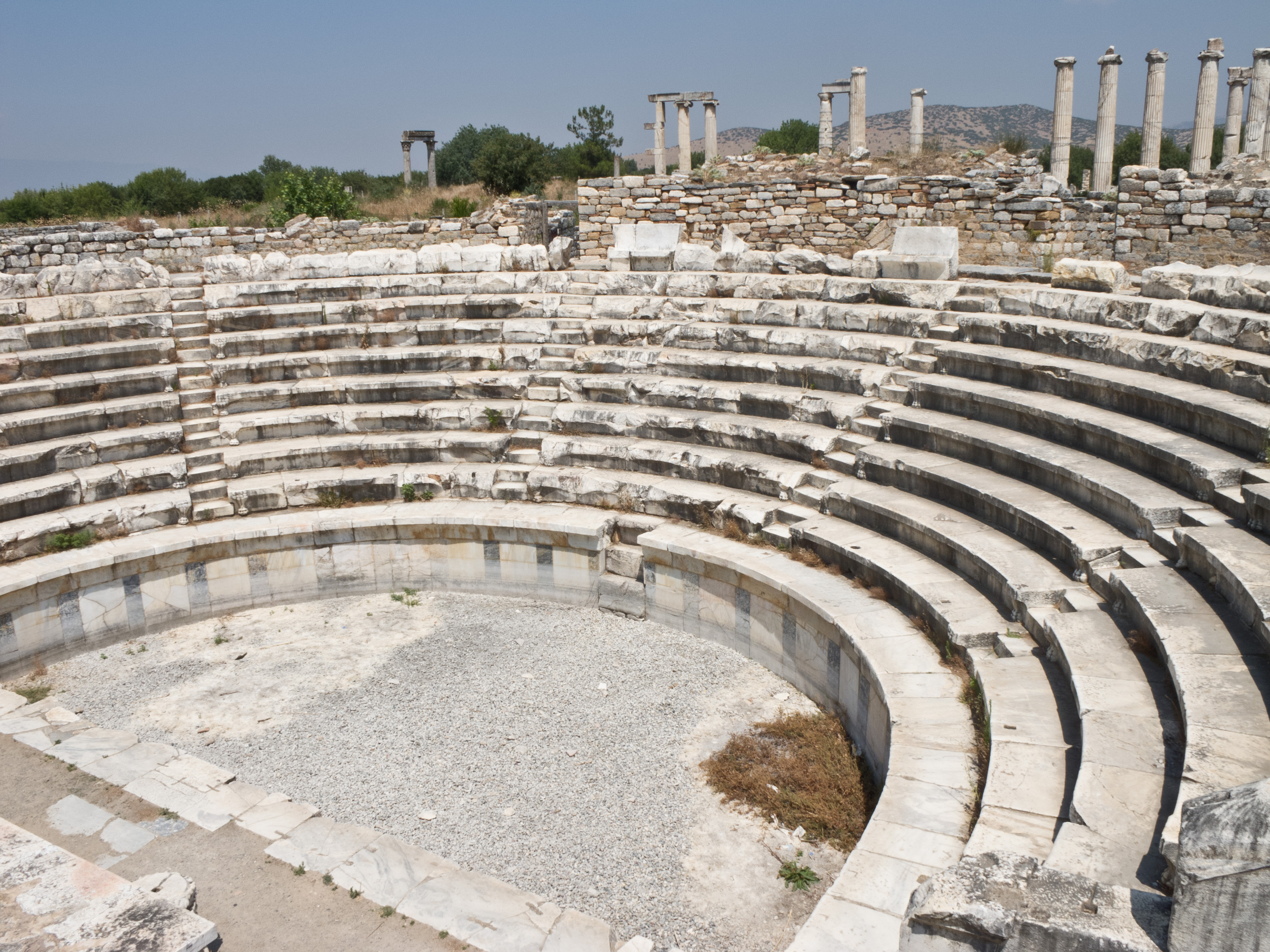 Odeon in Aphrodisias, in modern-day Turkey.